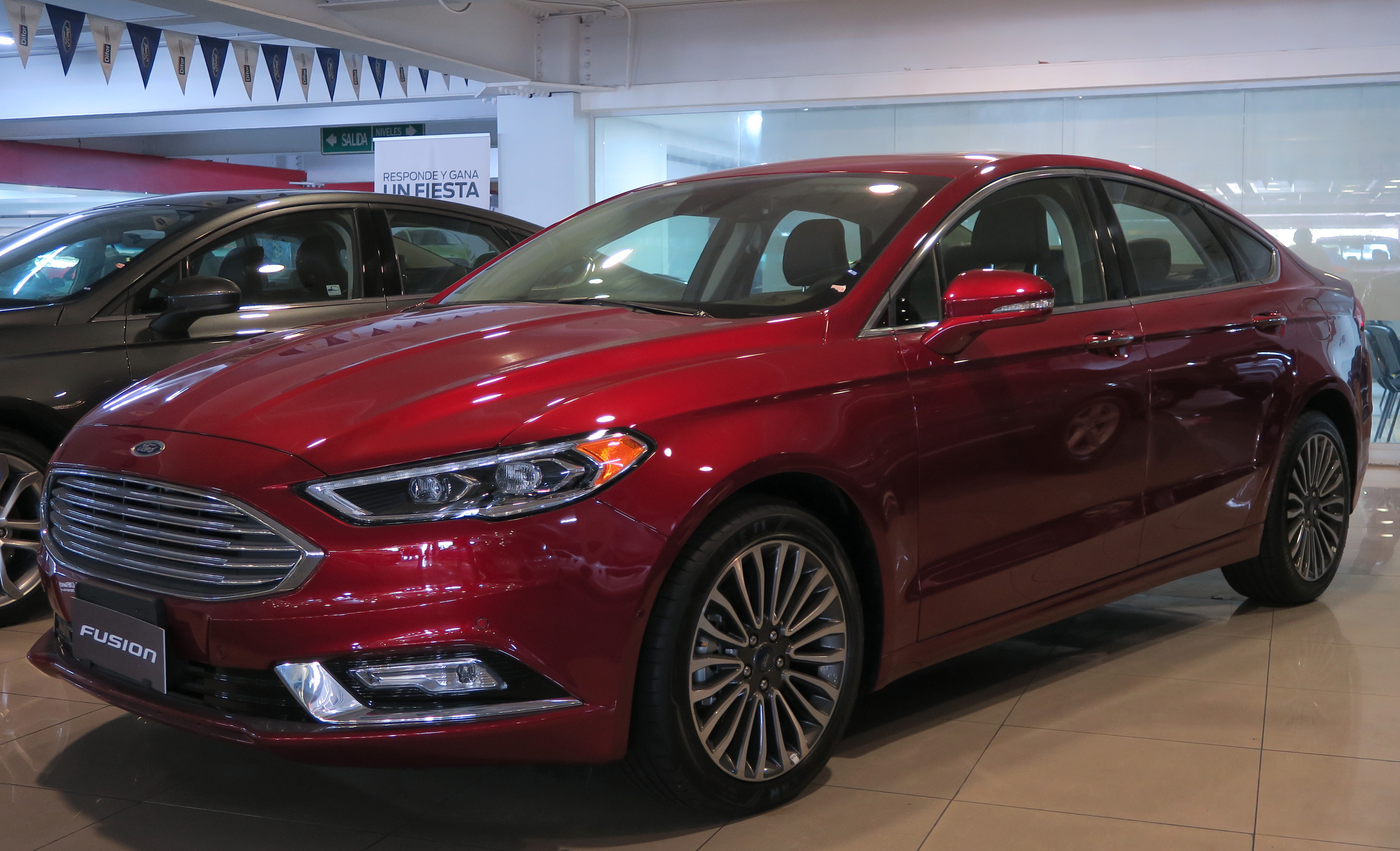 Ford Fusion SE 2.0 EcoBoost 2017